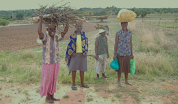 Maranda villagers